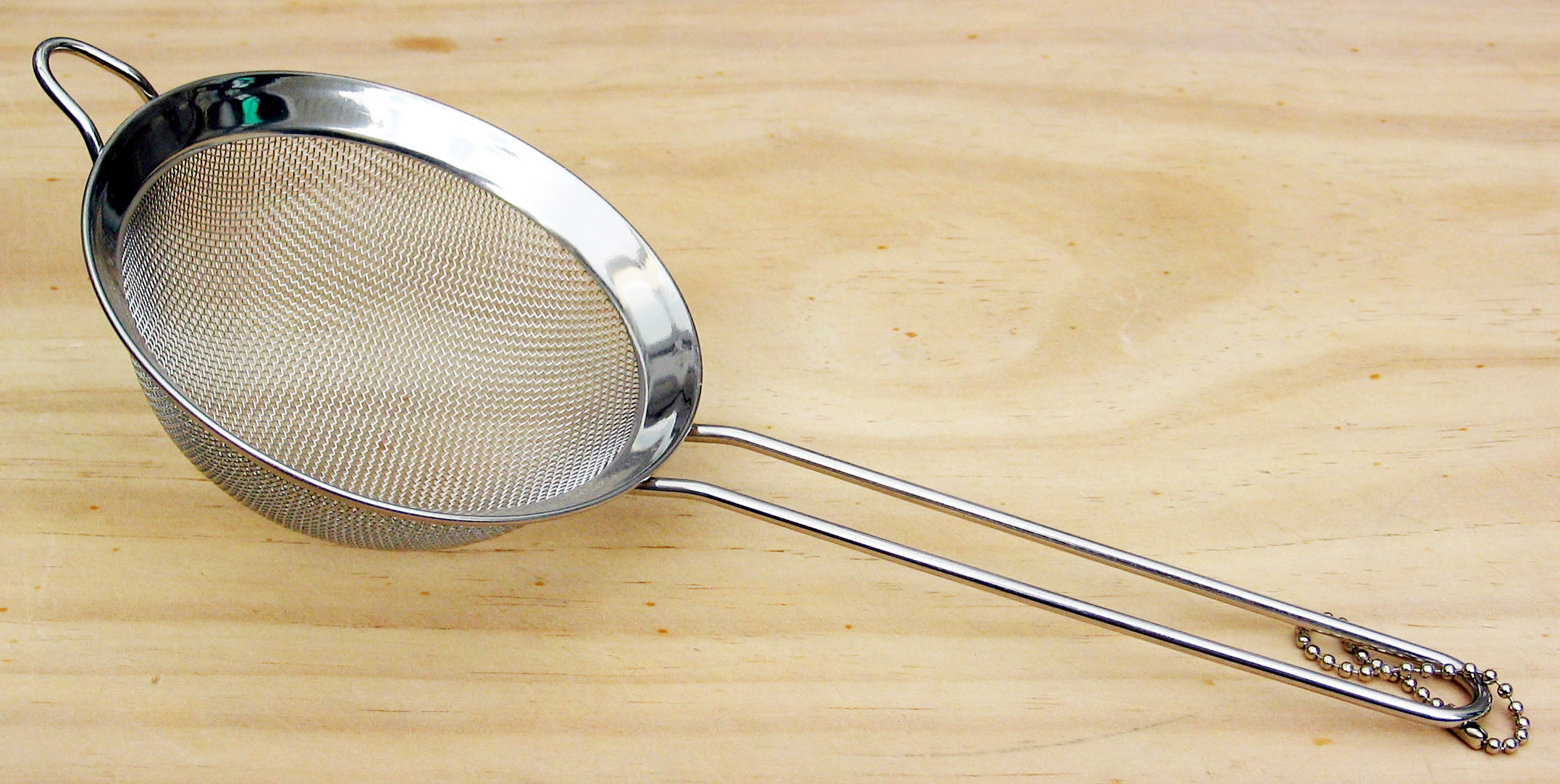 This is a sieve (also known as a strainer).